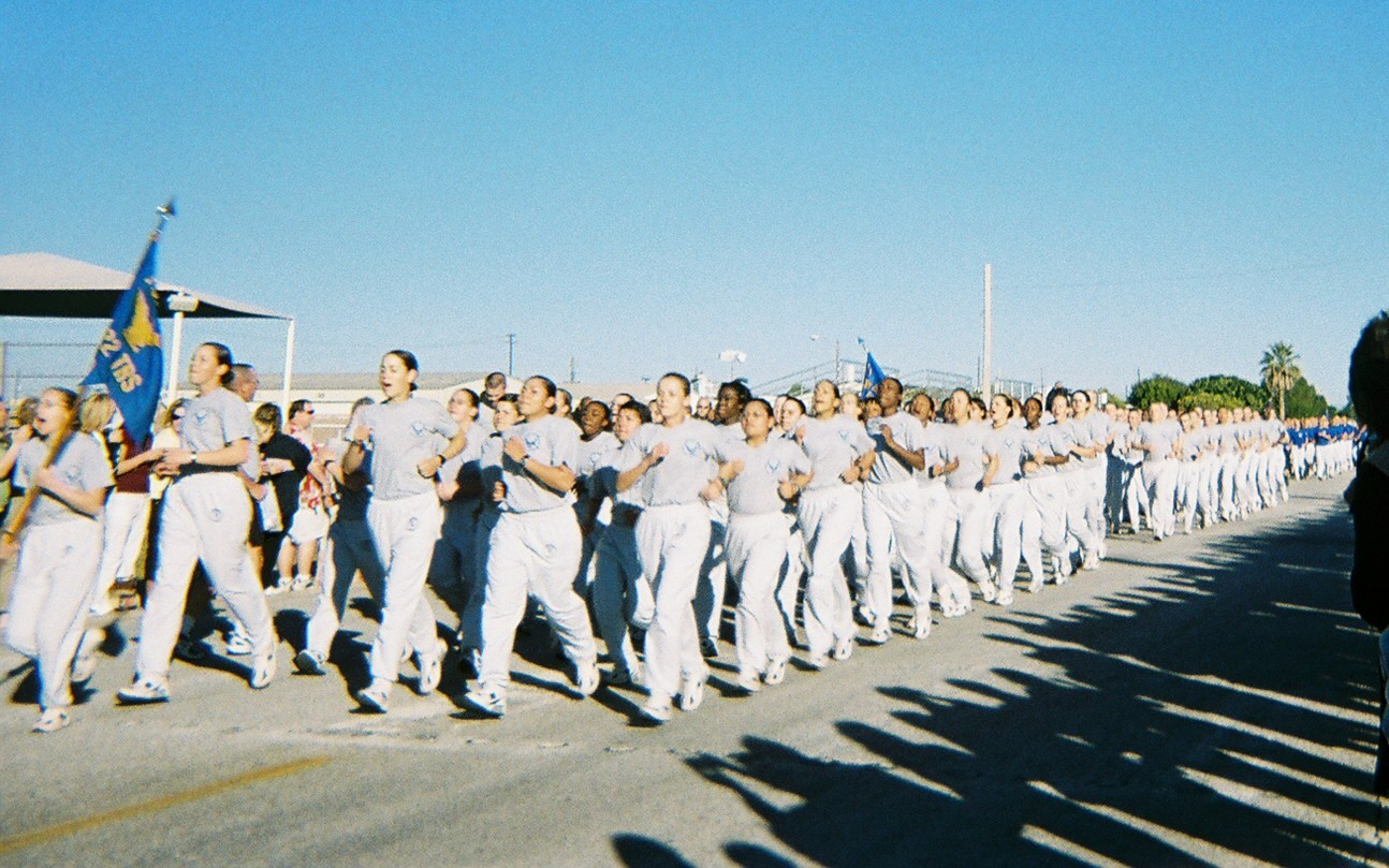 A flight of female airmen from the 322nd TRS (foreground), and male airmen (background; TRS unknown) at Lackland AFB in San Antonio, Texas participating in the Airman's Run, the final run before graduation.